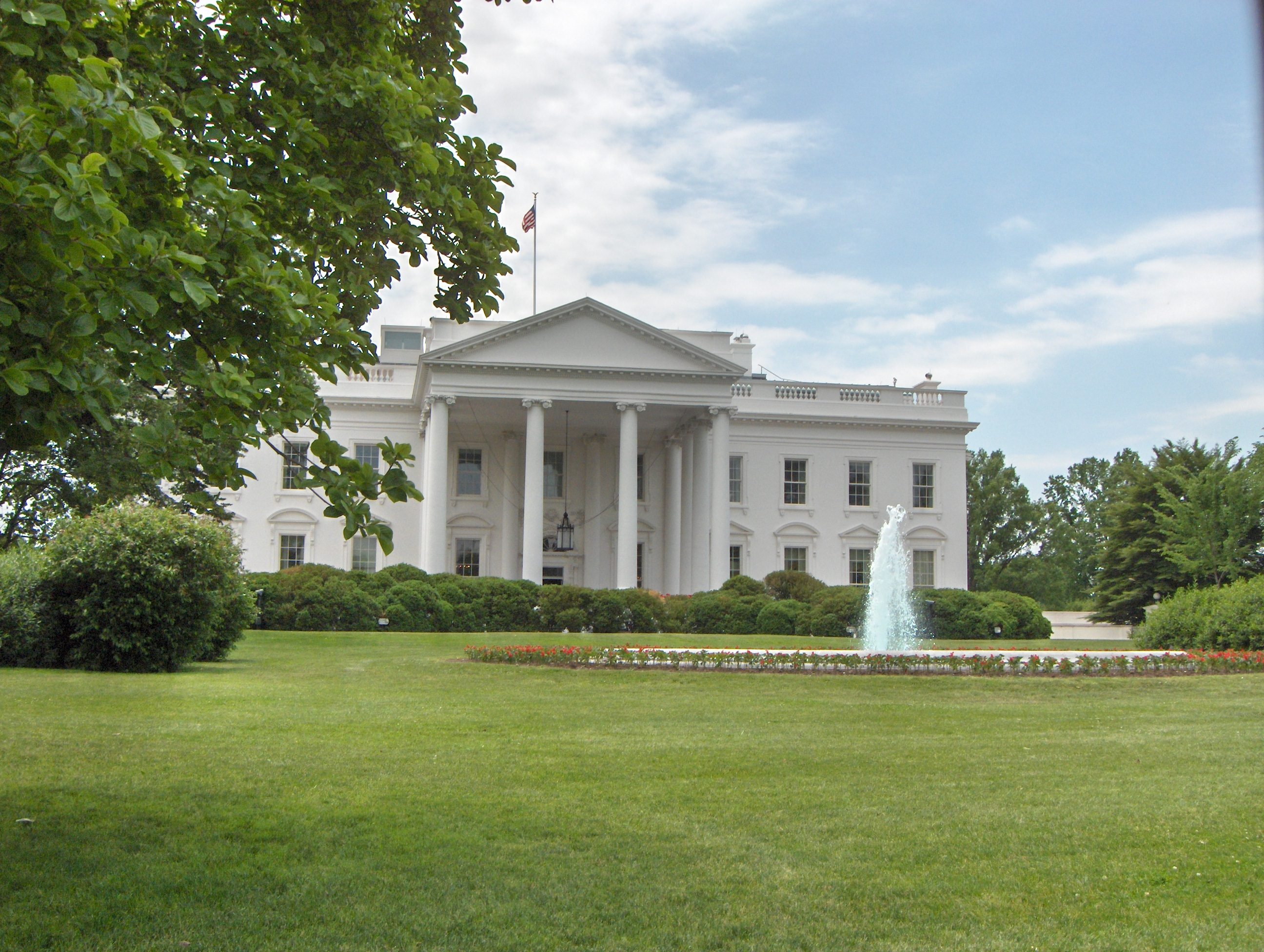 White House (North Lawn)